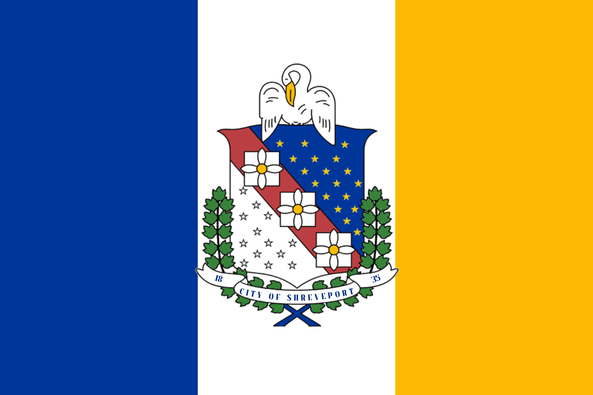 Flag of Shreveport, Lousiana